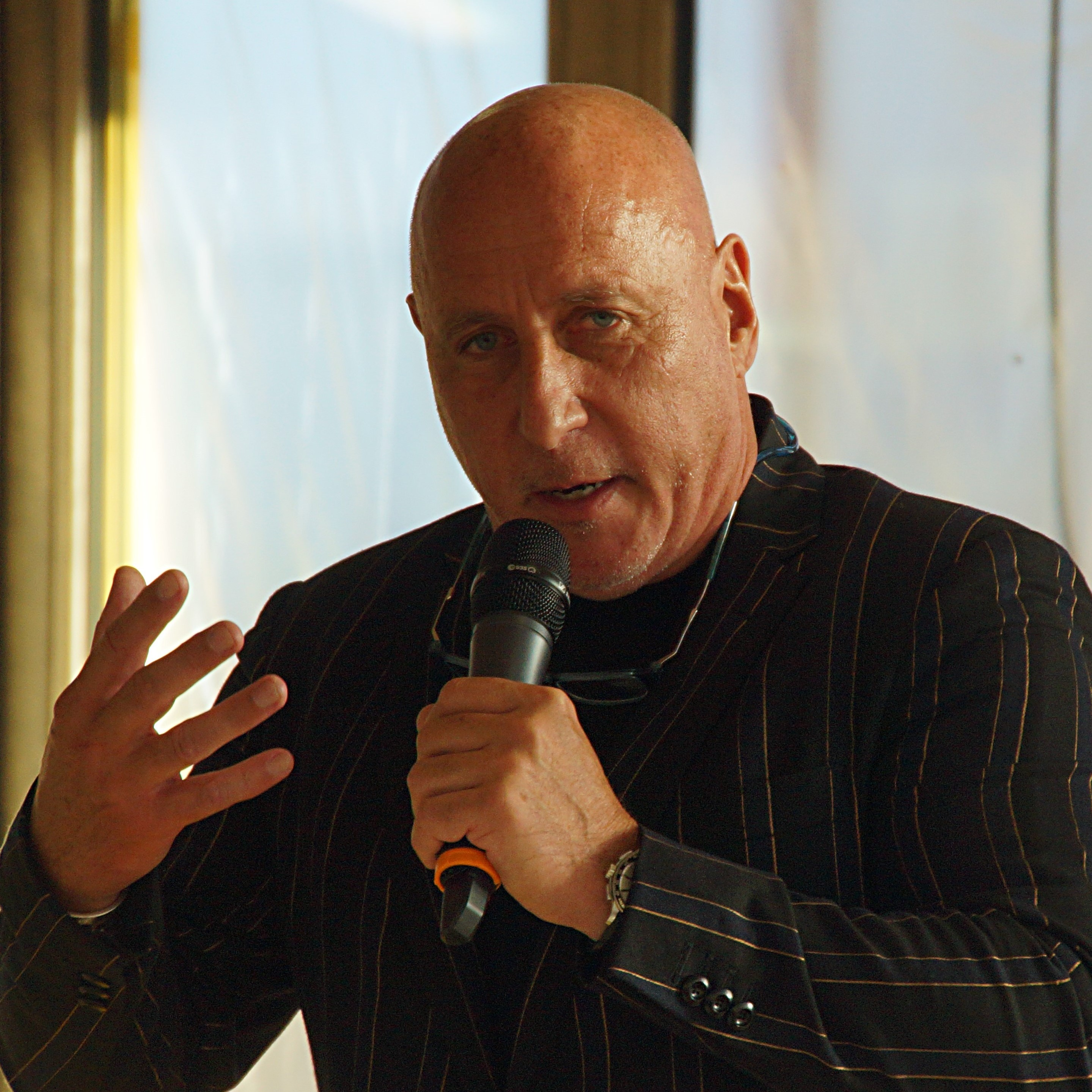 Christian Zott in October 2018 giving a speech at mSE Kunsthalle in Unterammergau, Germany